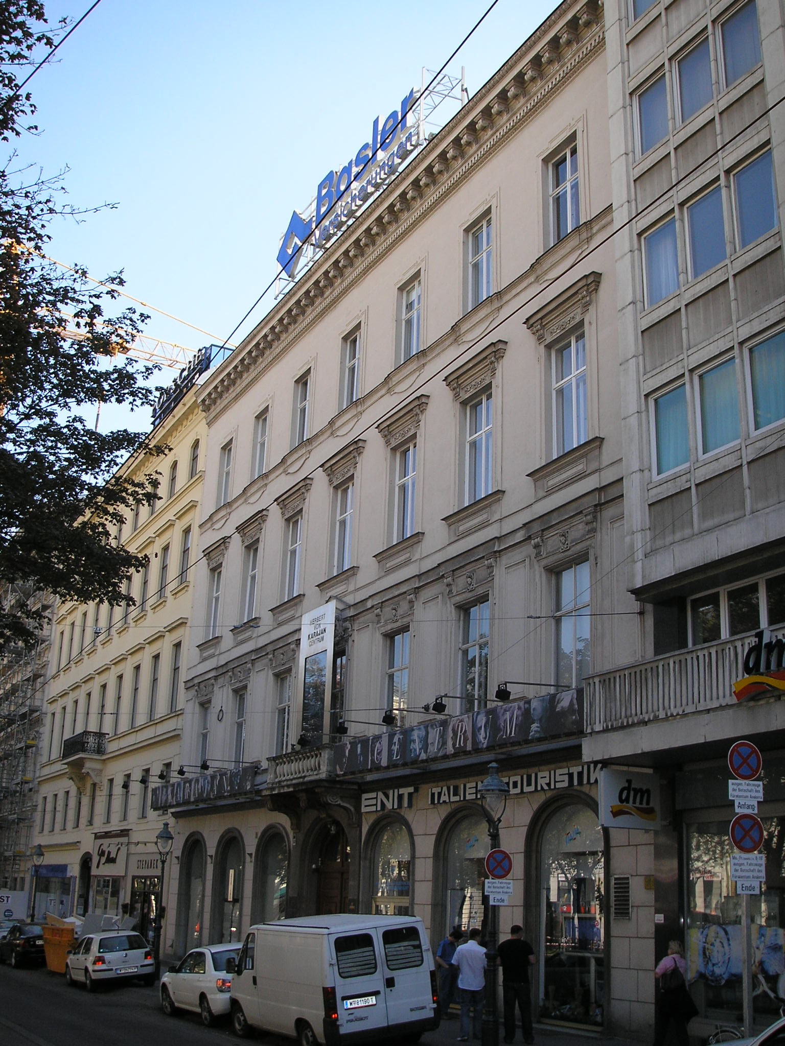 Image of Palais Königswarter in Vienna, Kärntner Ring 2-4. It used to be owned by the Austrian Jewish aristocratic family von Königswarter, who played a prominent role in the life and development of Vienna during the monarchy.